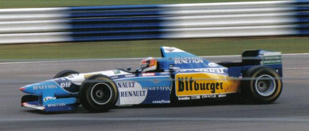 Michael Schumacher driving for Benetton Formula at the 1995 British Grand Prix.